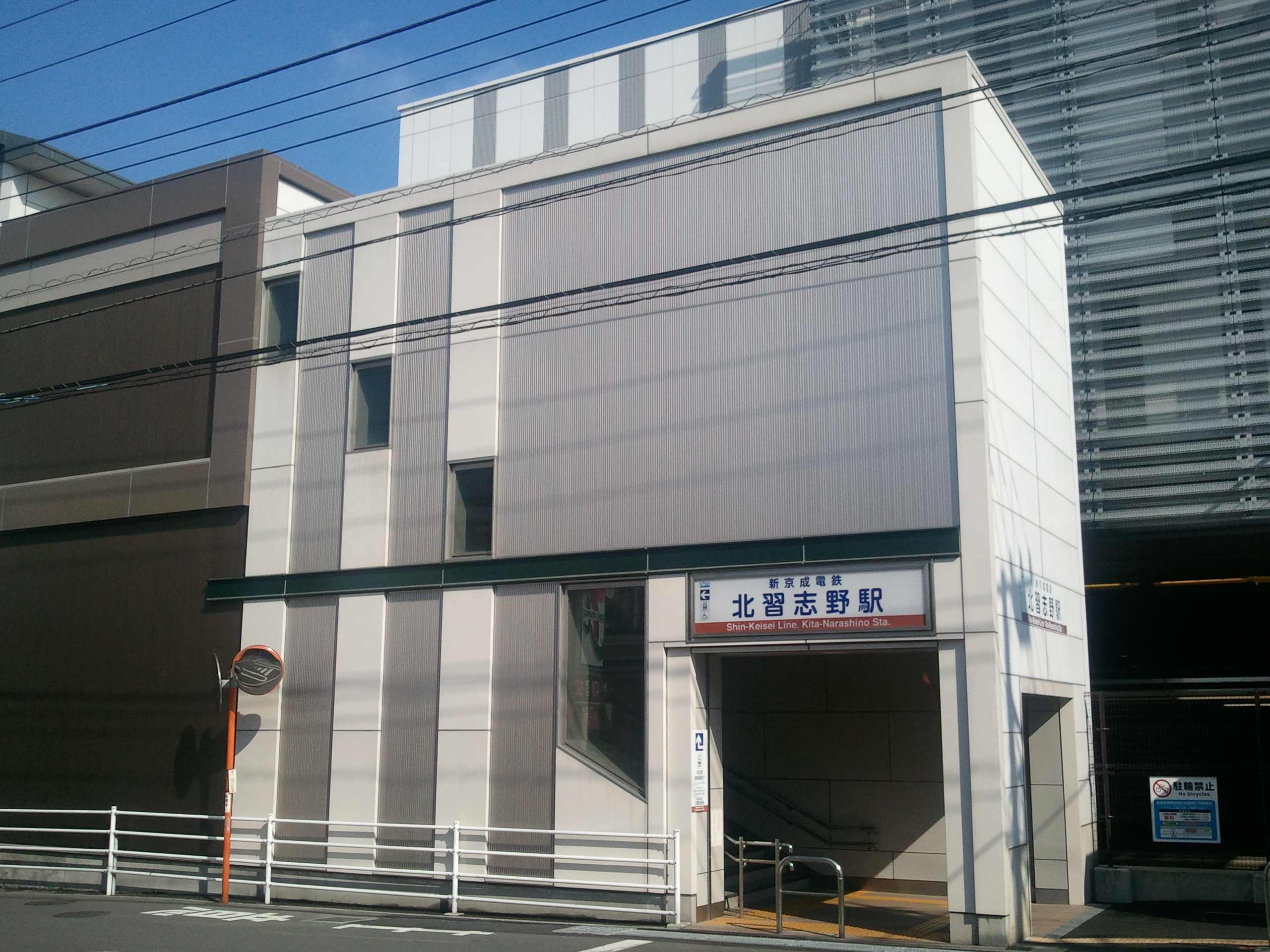 West side of Kita-Narashino Station on the Shin-Keisei Line